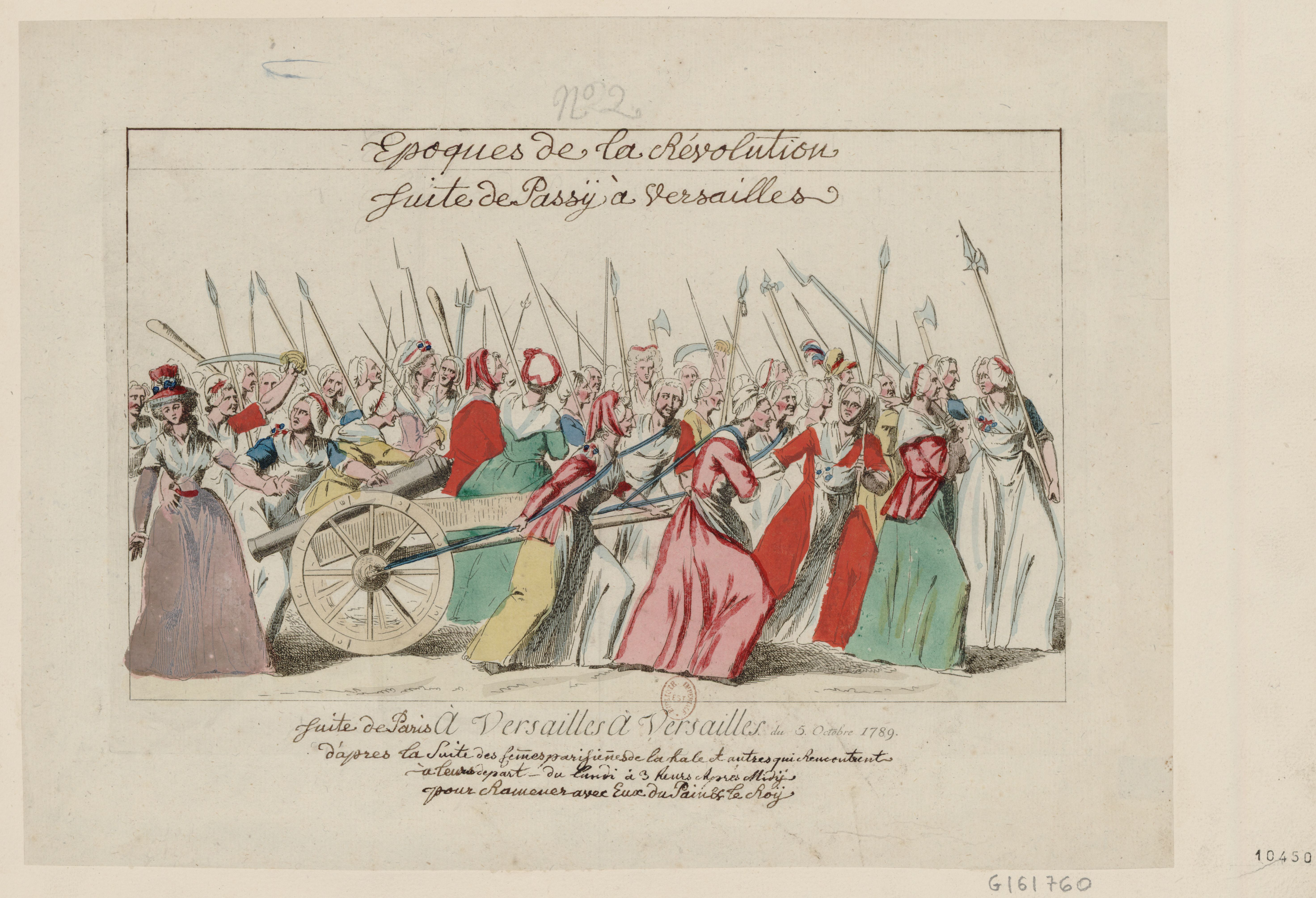 A contemporary illustration of the Women's March on Versailles.